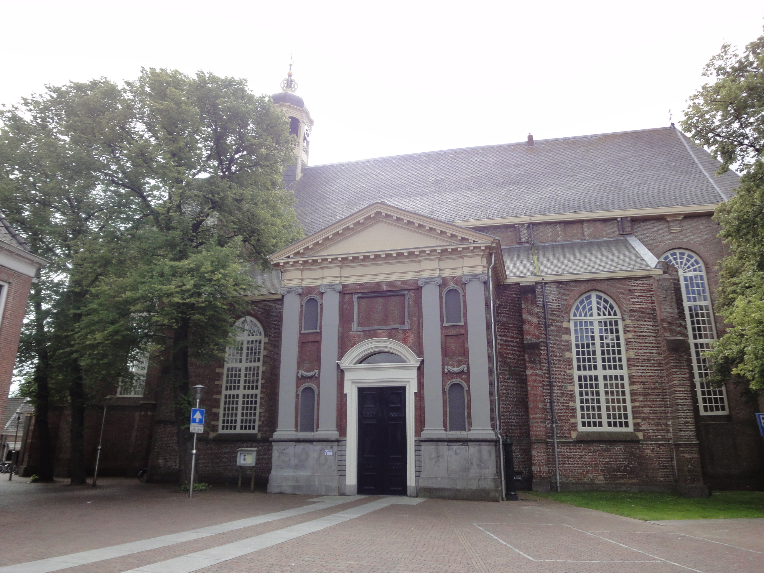 Grote Kerkstraat 5 76″ N, 5° 39′ 31.04″ E